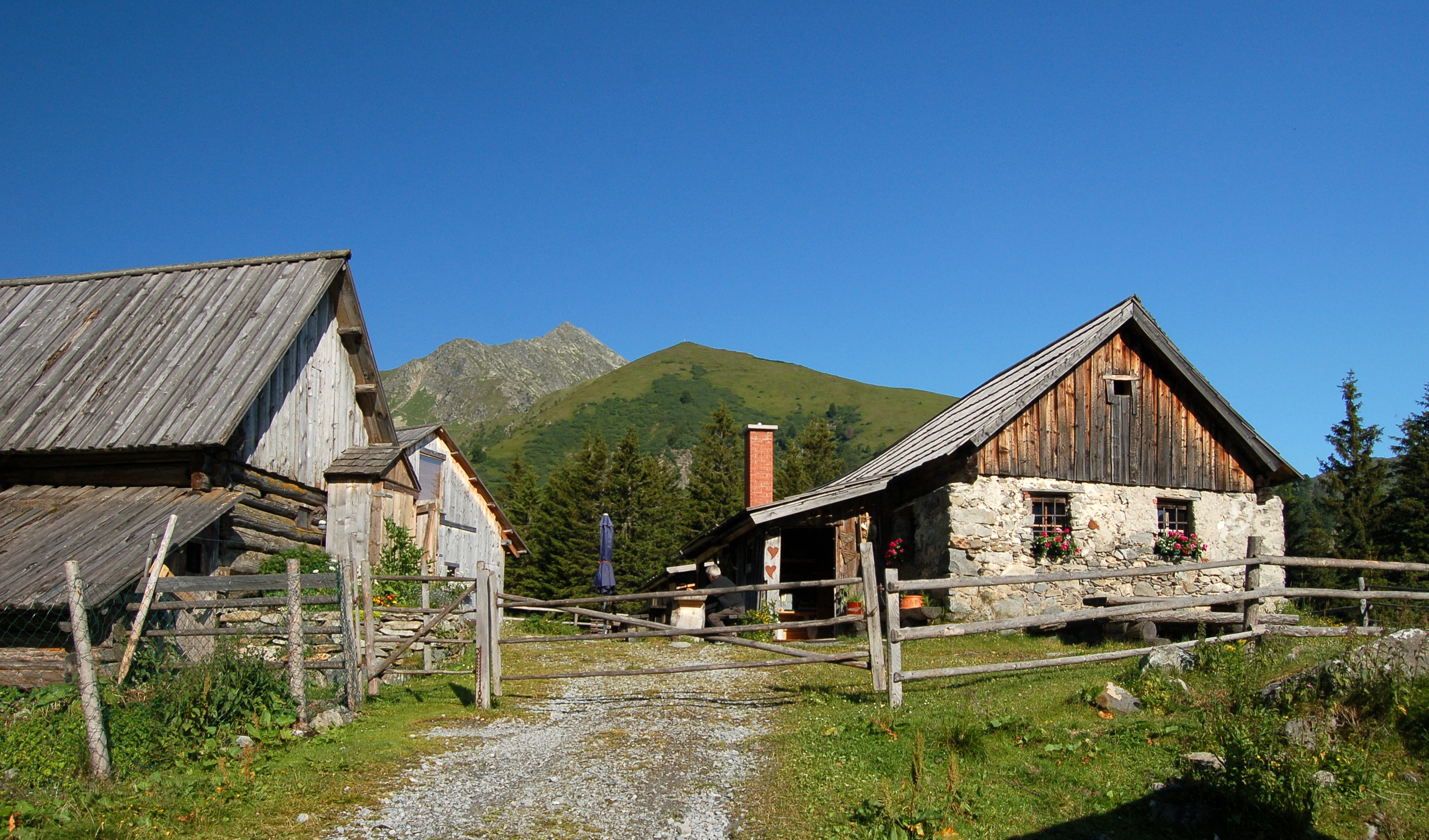 The Scheibelalm, a mountain pasture in Styria, is a cultural heritage monument.